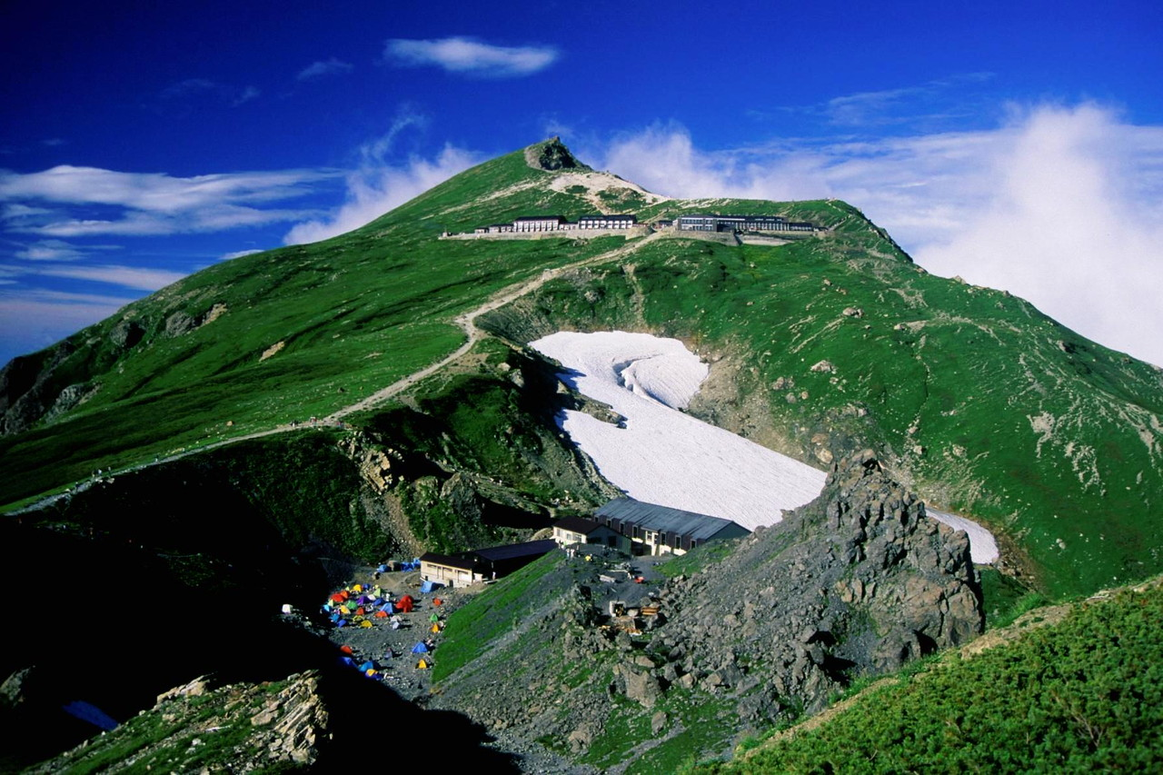 Mount Shirouma and the huts in Hida Mountains, Japan.